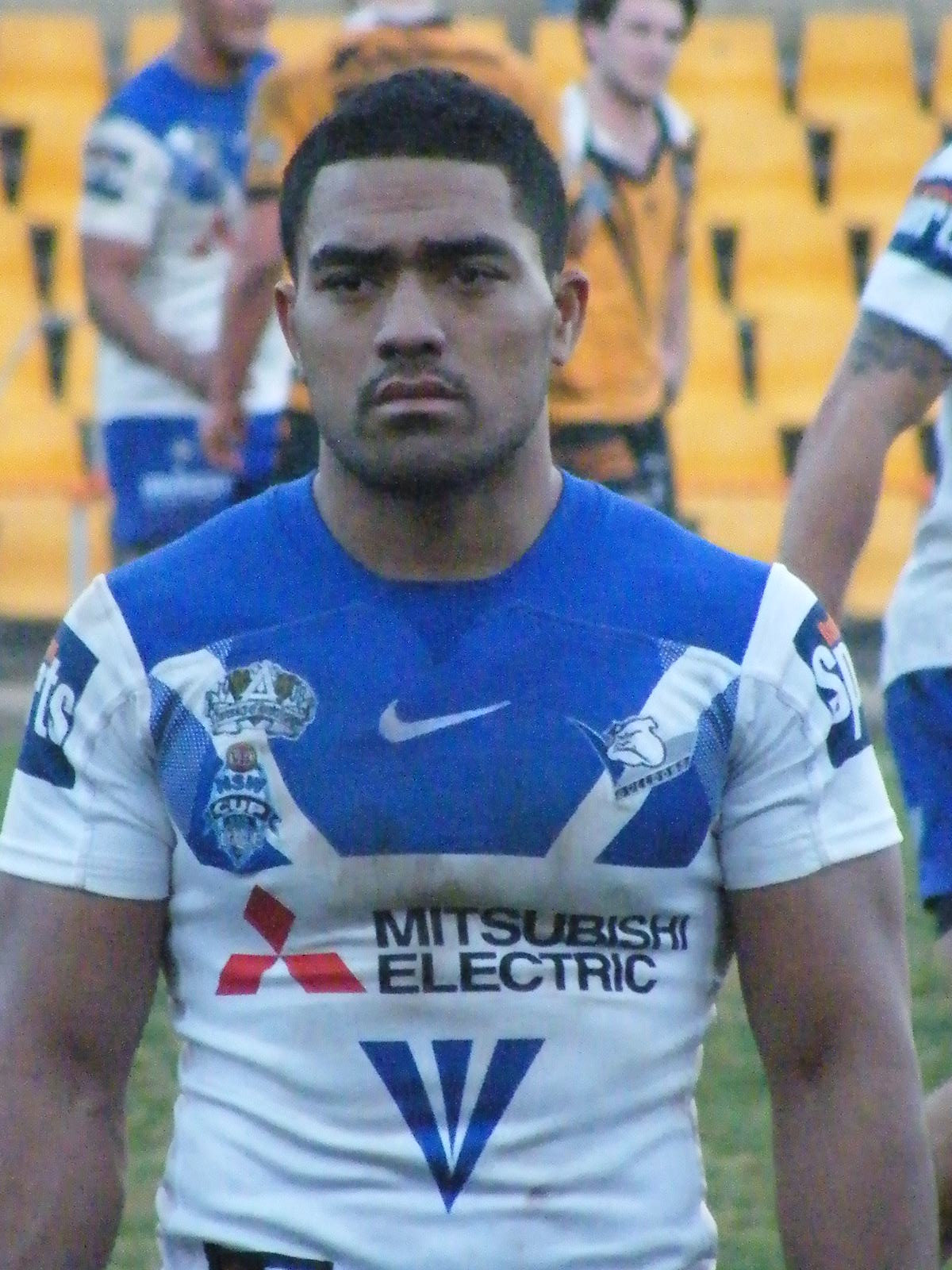 Lorenzo Maafu